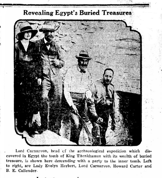 Newspaper photo showing (left to right) Lady Evelyn Herbert, her father Lord Carnarvon, Howard Carter and Arthur Callender outside the tomb of Tutankhamun.